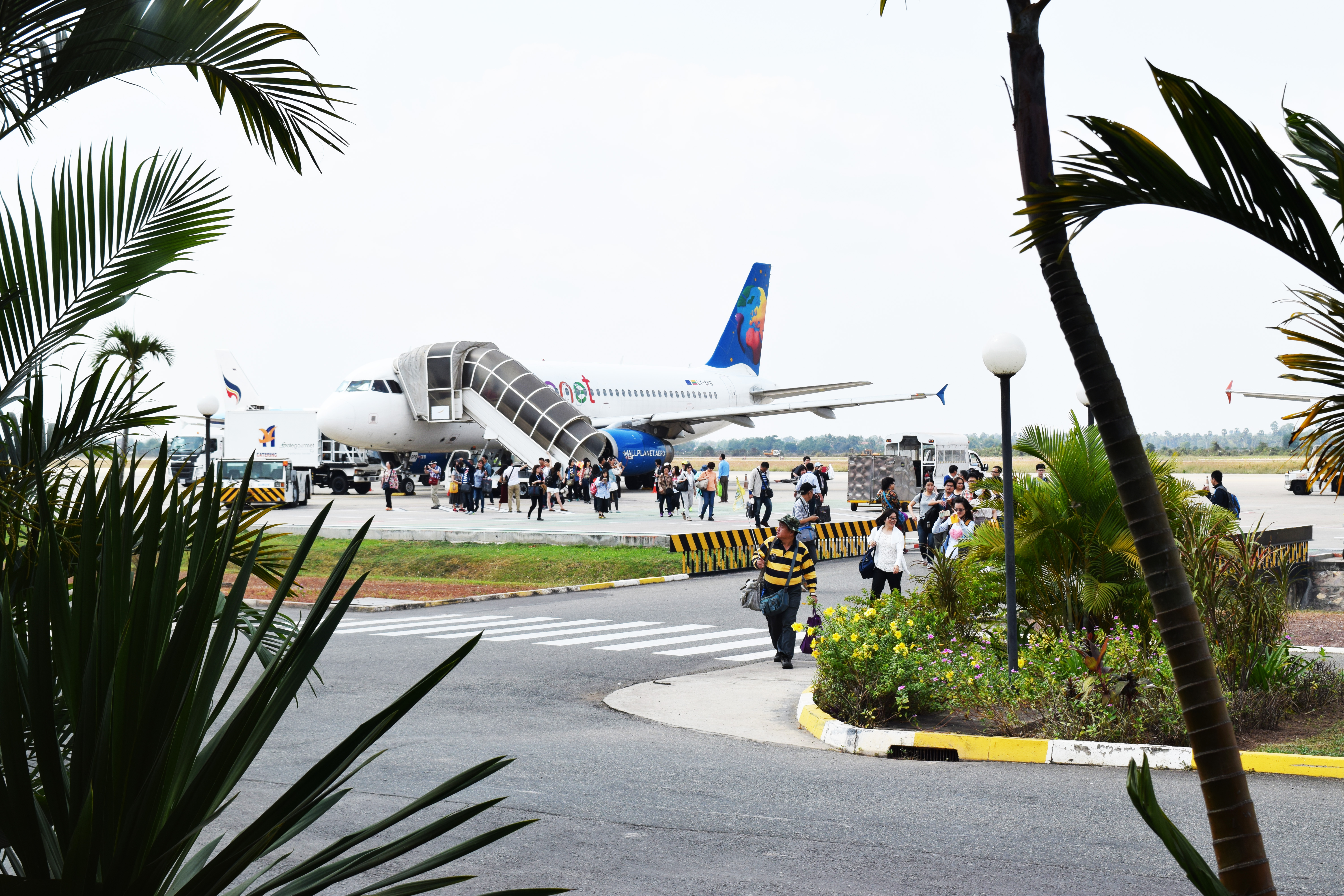 Small Planet Airlines at Cambodia